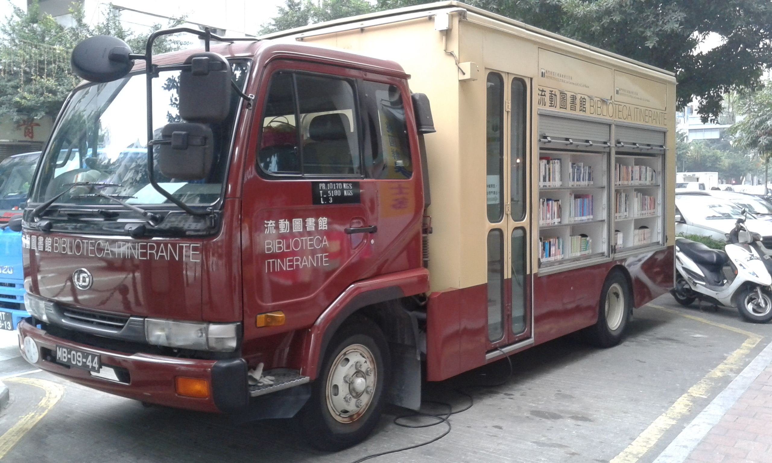 Mobile Library in Macau